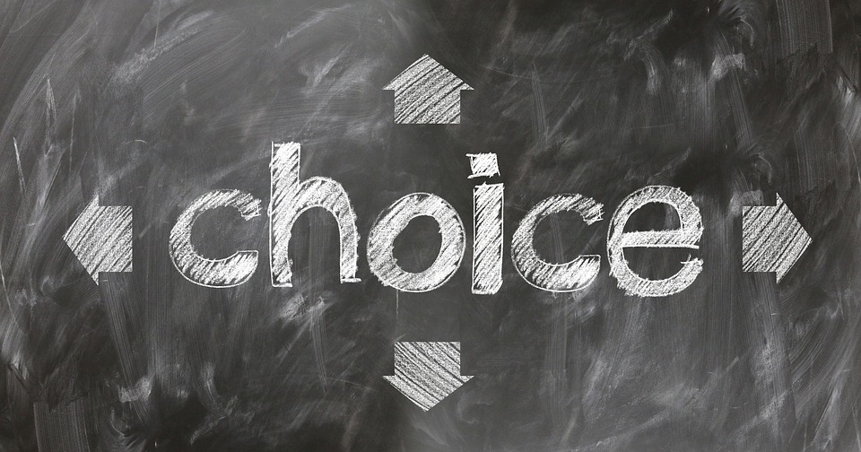 One choice.